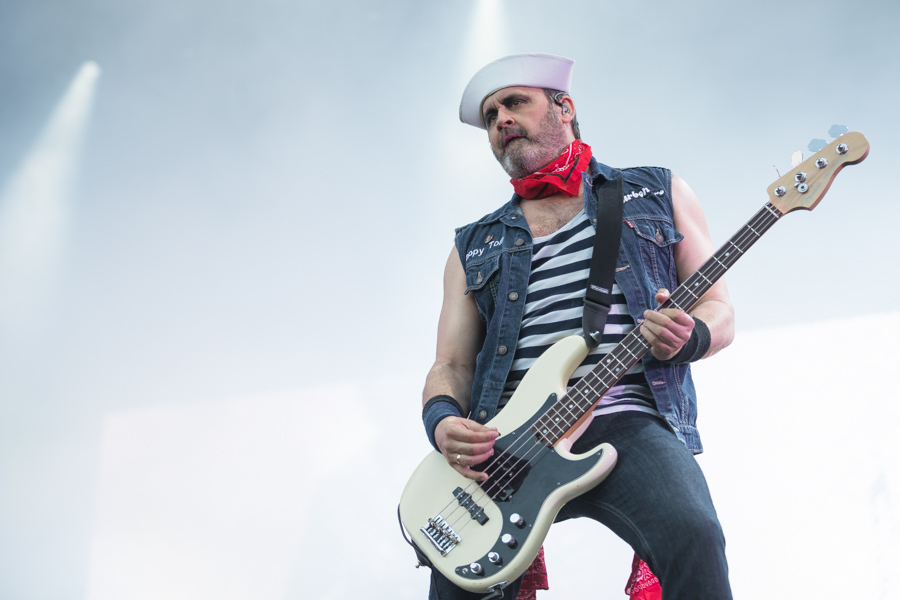 Thomas Seltzer in a concert with Turboneger at Stavernfestivalen. The concert took place on 12. July 2019 in Stavern. Lineup:Anthony Madsen-Sylvester (vocal)Thomas Seltzer (bass guitar)Knut Schreiner (guitar)Rune Grønn (guitar)Tommy Akerholdt (drums)Haakon-Marius Pettersen (keyboard)